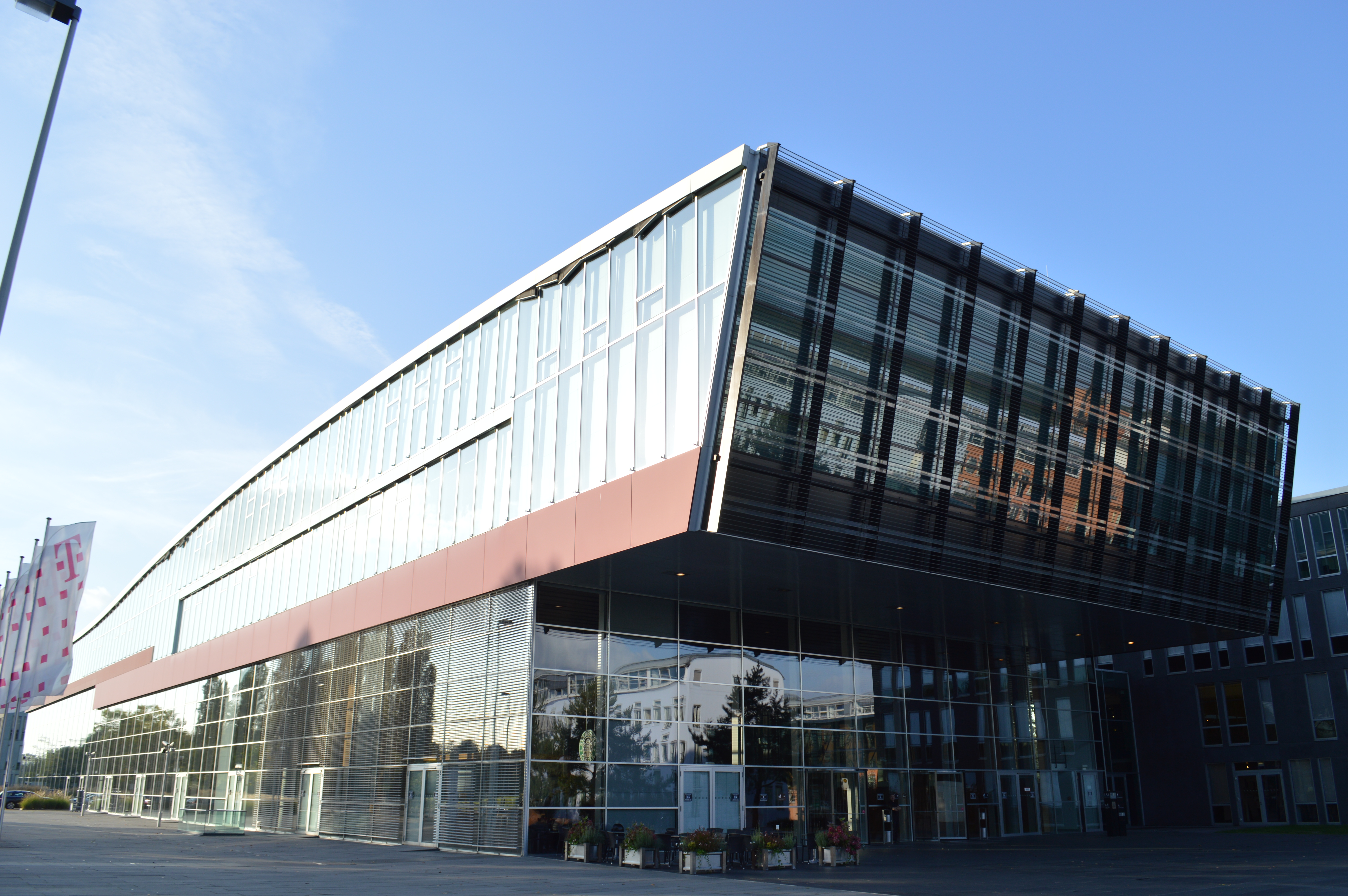 Telekom Forum, Landgrabenweg, Bonn-Limperich